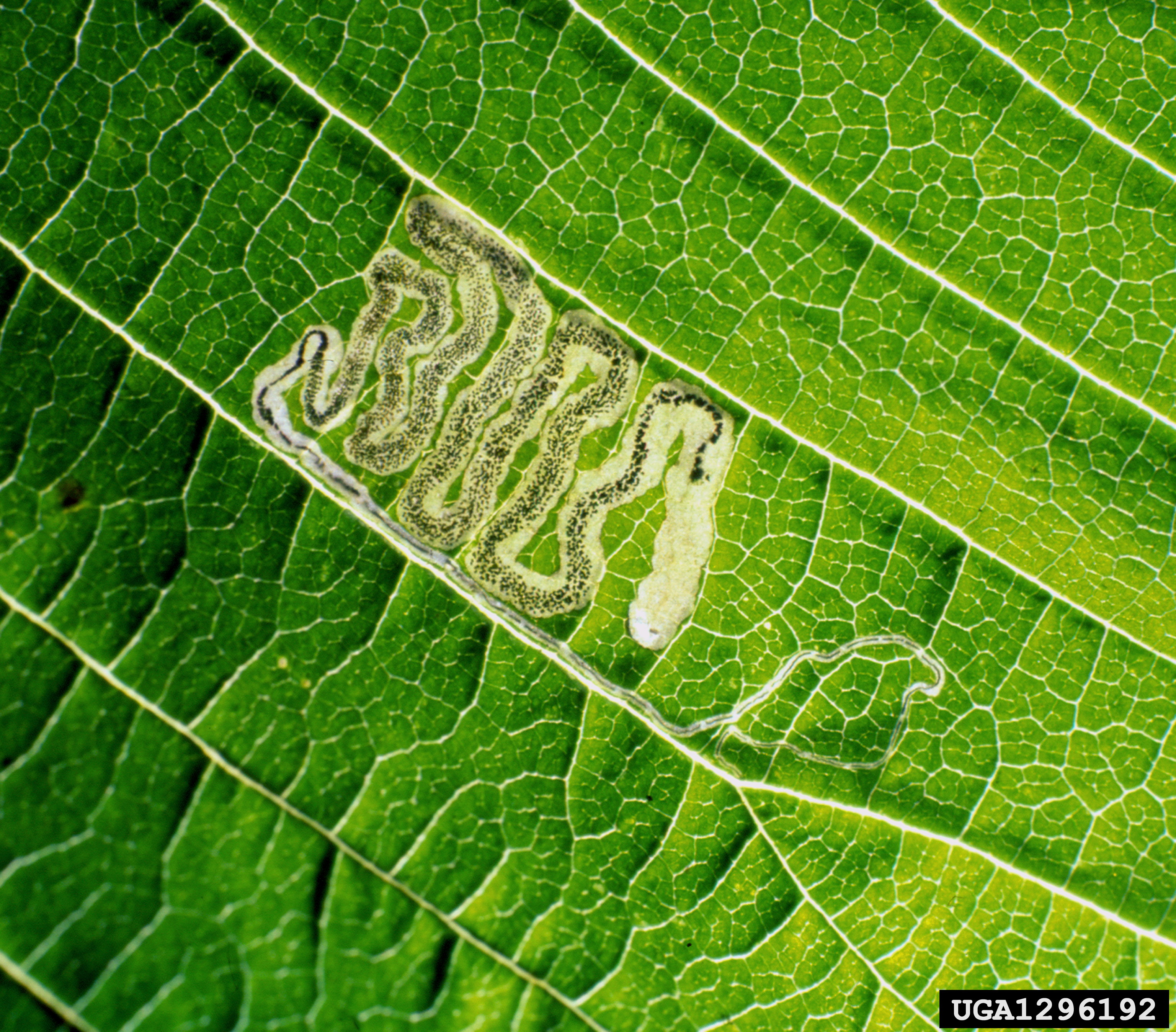 Stigmella_tiliae_damage